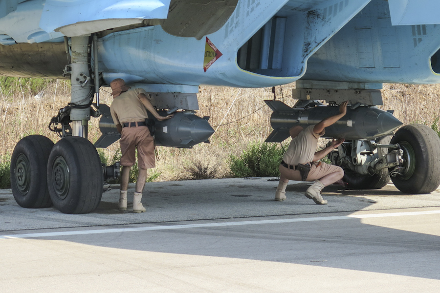 Fixing missiles to a Sukhoi Su-34 at Latakia. (Actually not missiles, but 500 kg guided bombs type KAB-500S)